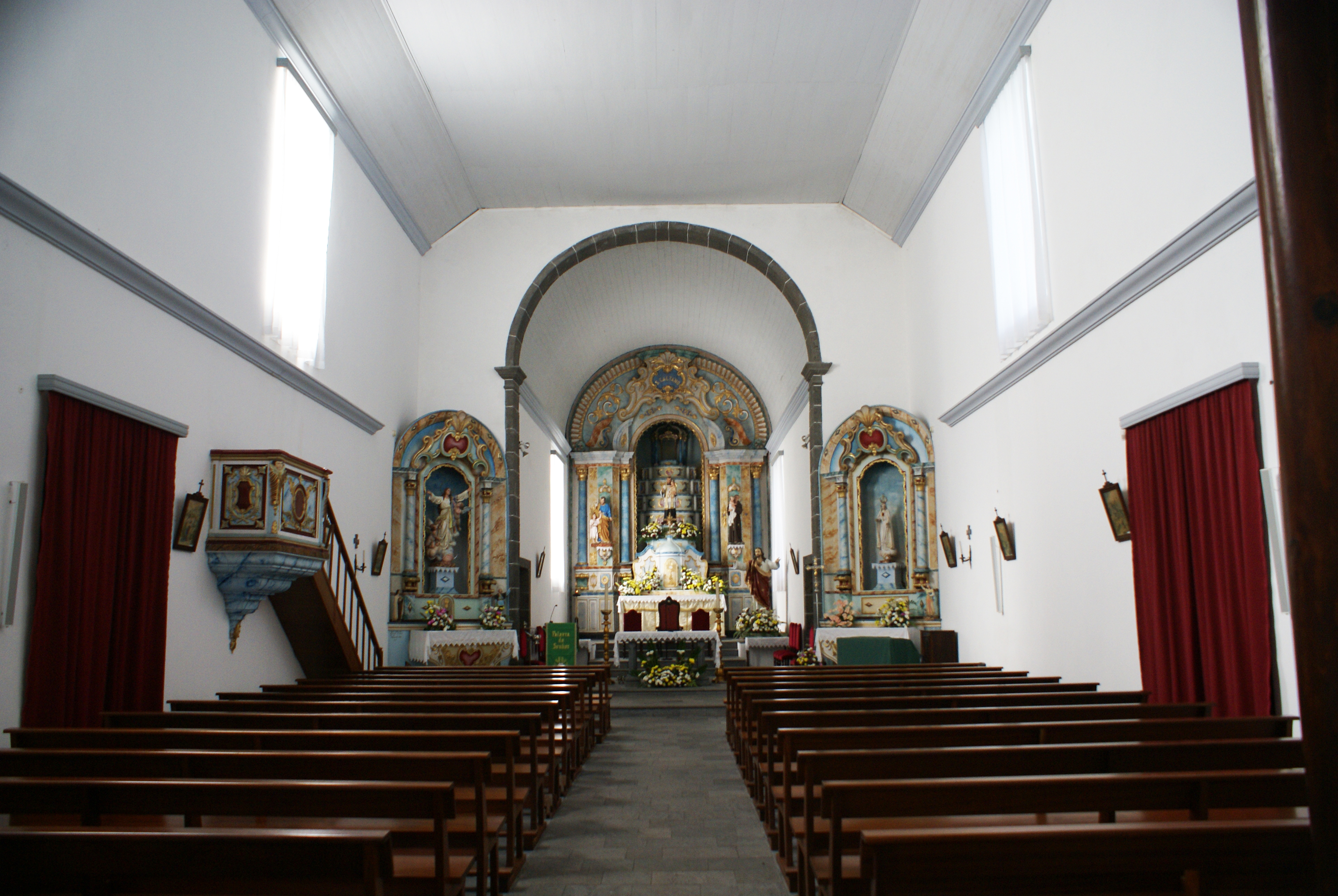 The simple nave of the Church of São Caetano, São Caetano, Madalena, Pico (Azores), Portugal